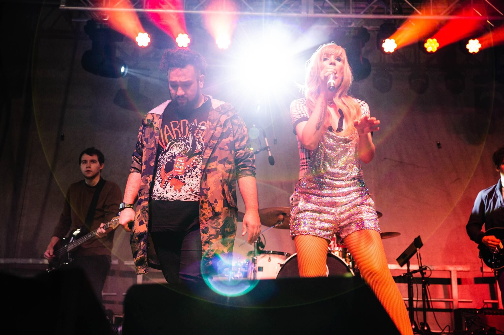 Munnycat performing at Youngstown State University in 2017